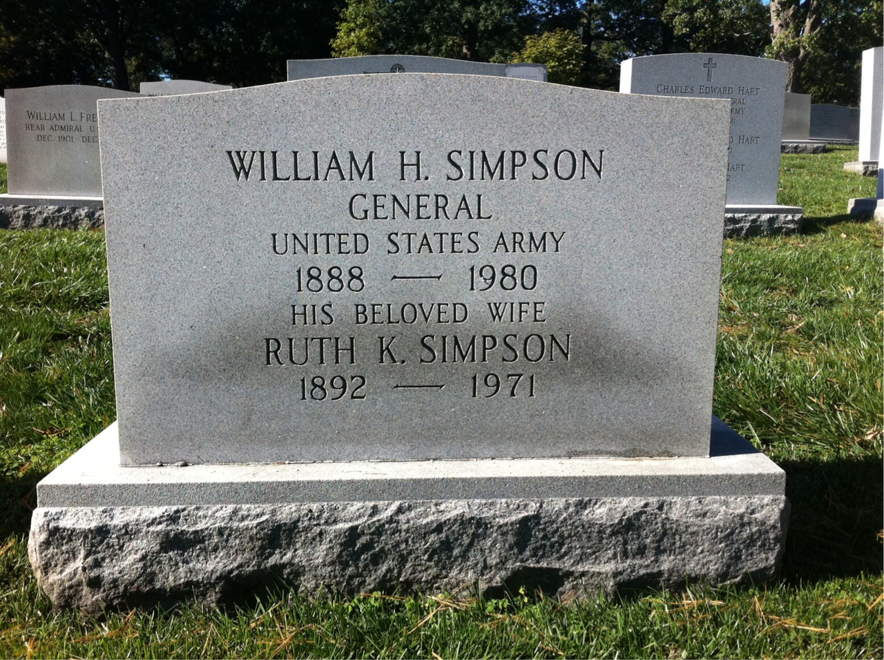 Headstone image id 322563 front. Headstone for William H. Simpson in Arlington National Cemetery